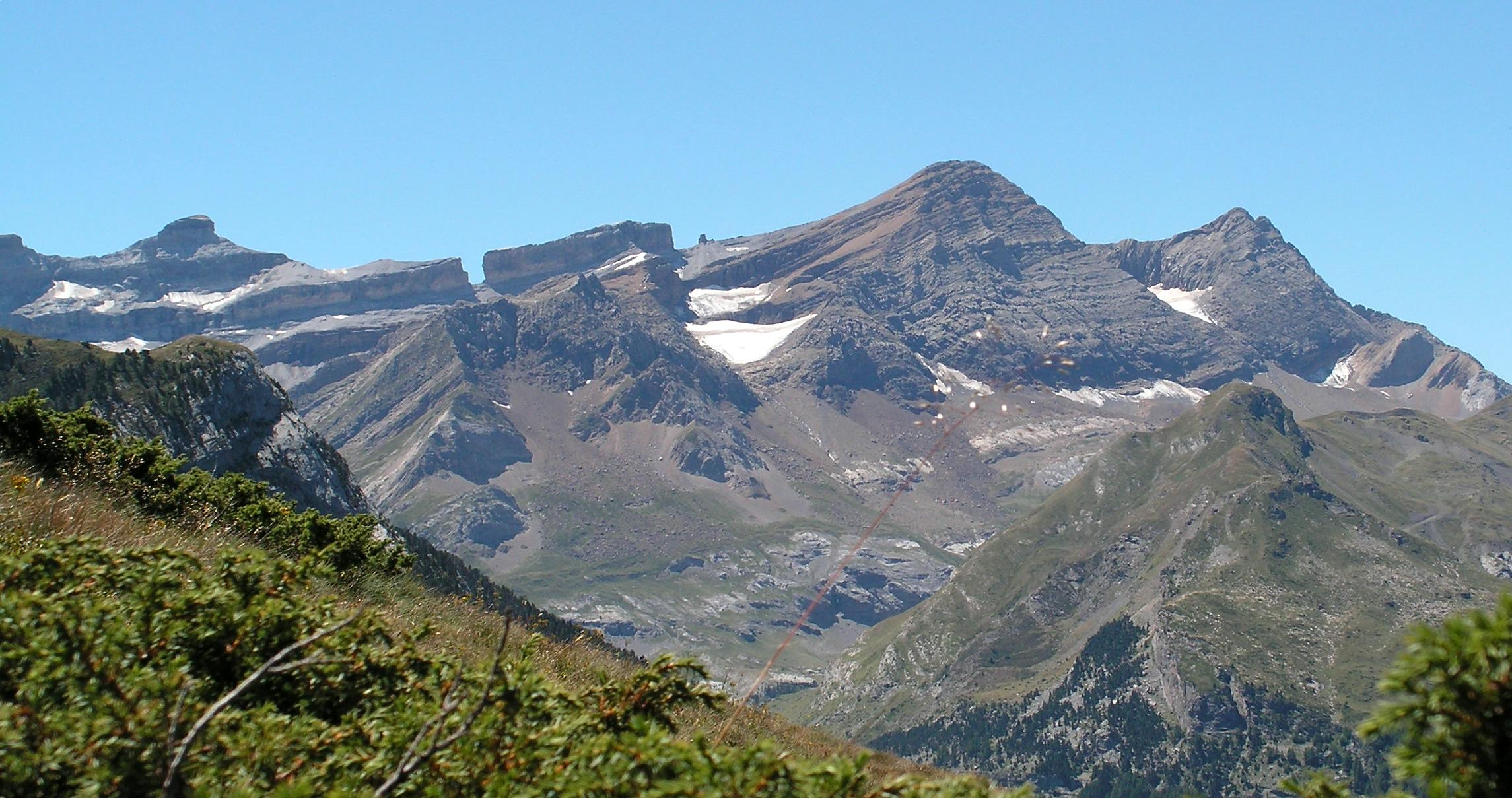 View near Cirque du Gavarnie. Breche of Roland is the gap slightly left of the center of the picture. Taken By Jens Buurgaard Nielsen, August 05, 2005 13:20.